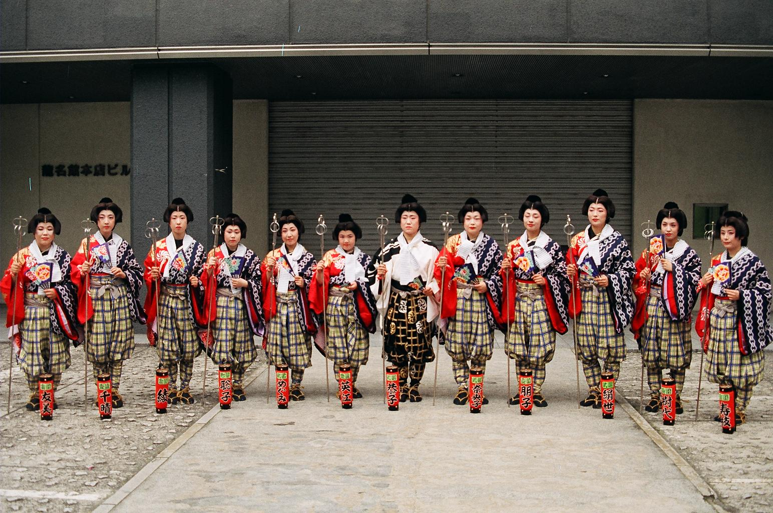 Tekomai(rich cosmetized and florid festival kimono girl)